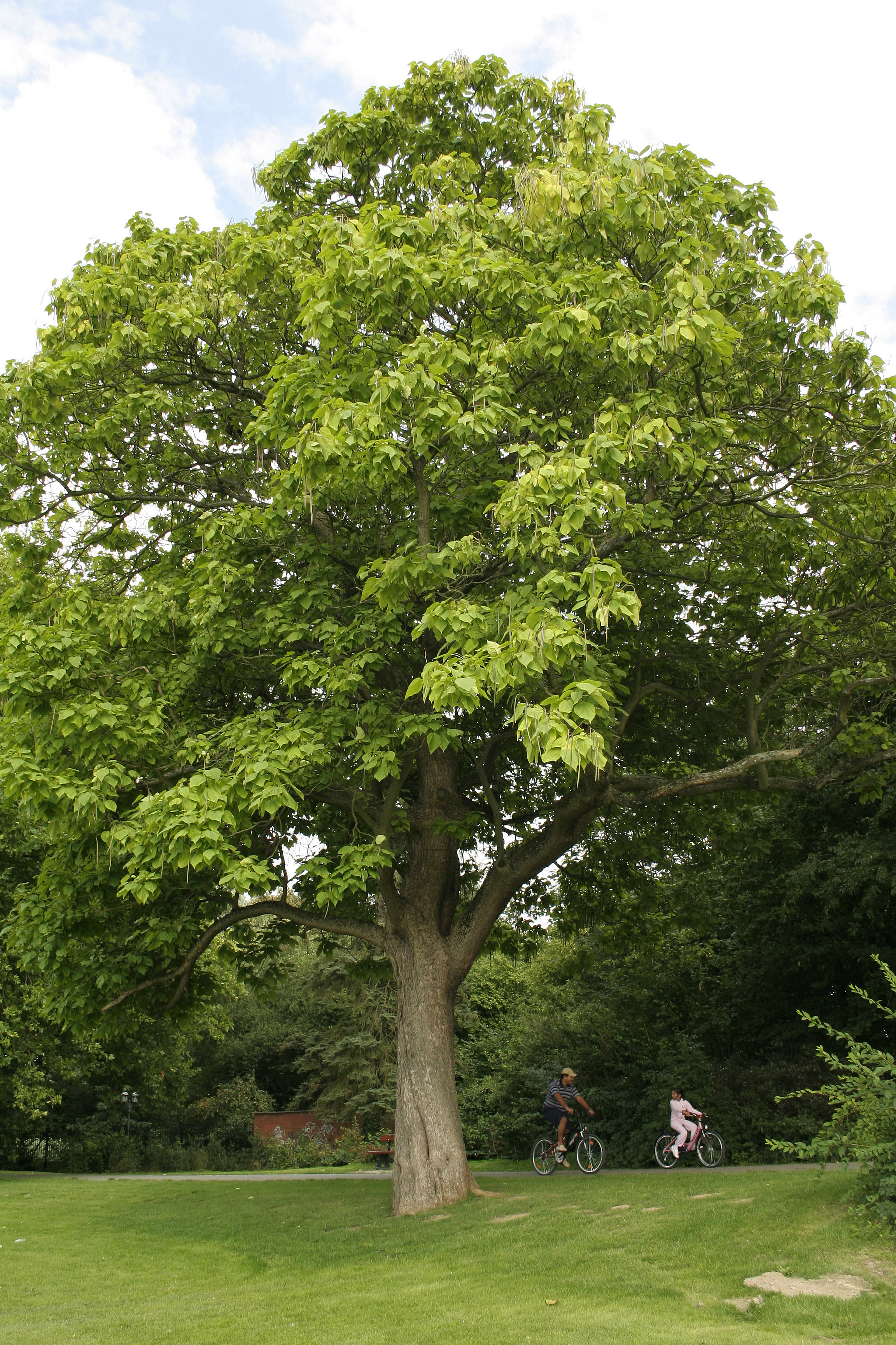 Southern Catalpa